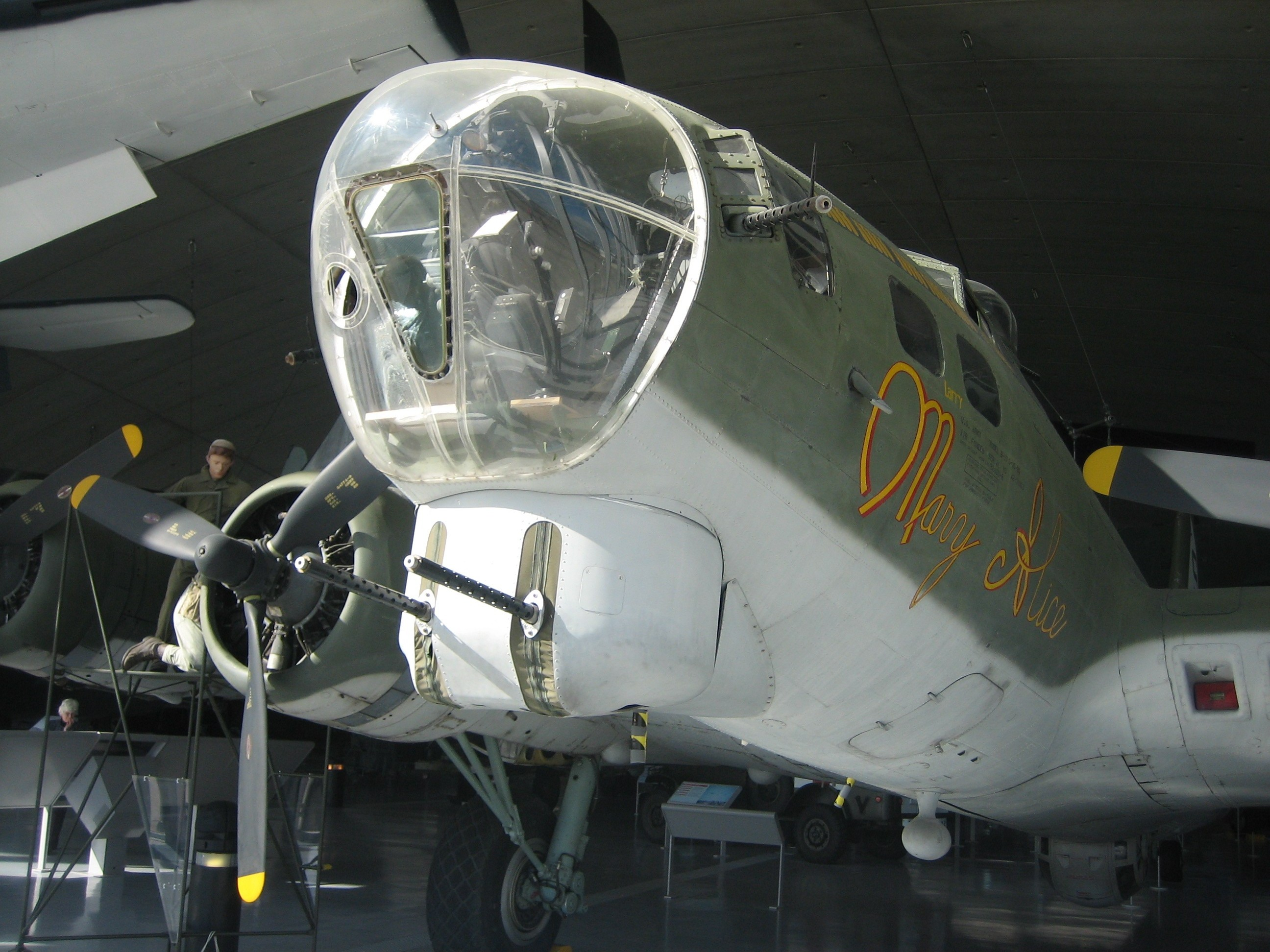 B17 chin turret